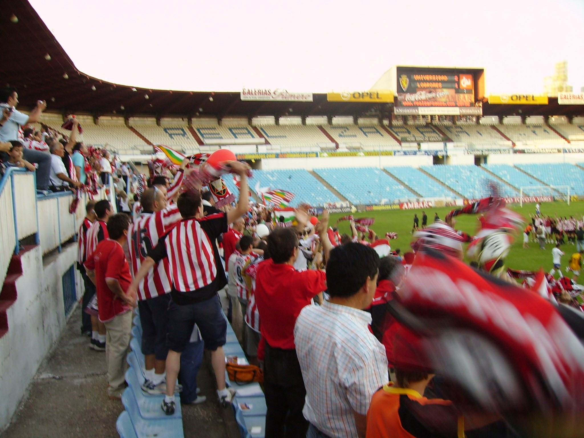 Celebration of the CD Logroñés promotion to 2ªB in La Romareda.